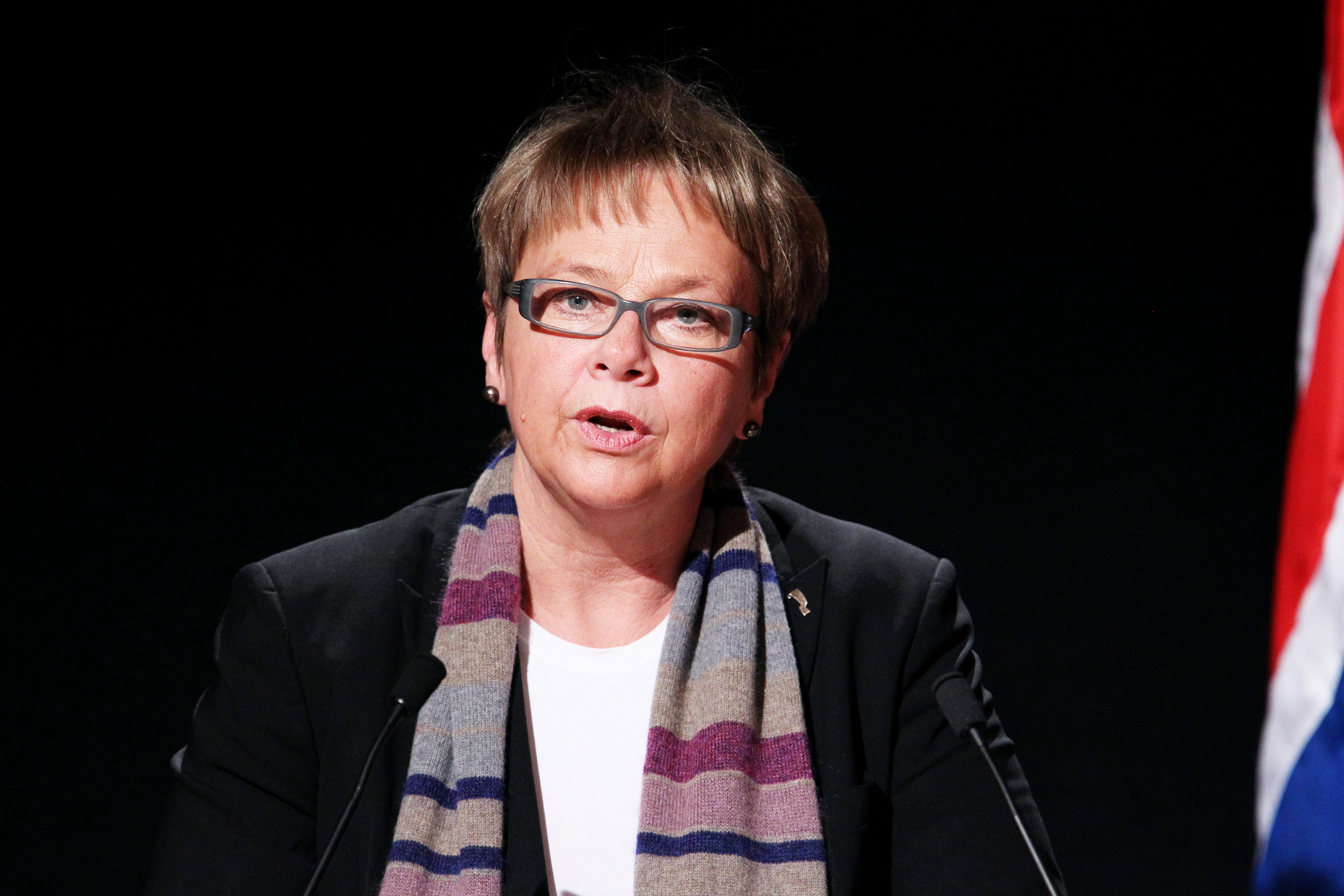 Sonja Irene Sjøli vid Nordiska Rådets session på Island 2010-11-04. Keywords: Sonja Irene Sjøli (H)